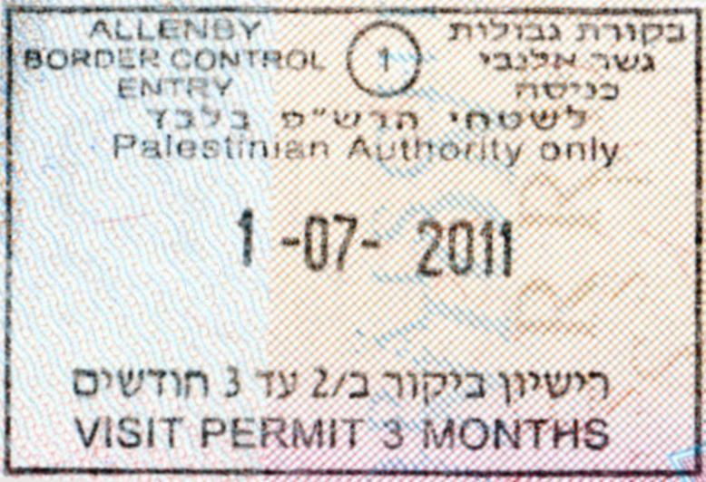 Israeli visit permit for Palestinian Athority only